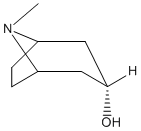 Structure of tropine drawn with chemdraw